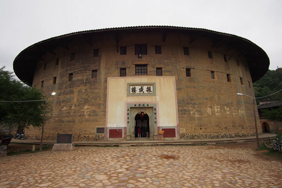 Fujian Tulou UNESCO Site in China